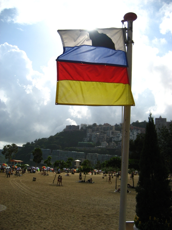 Warning Signals at Hong Kong Beaches